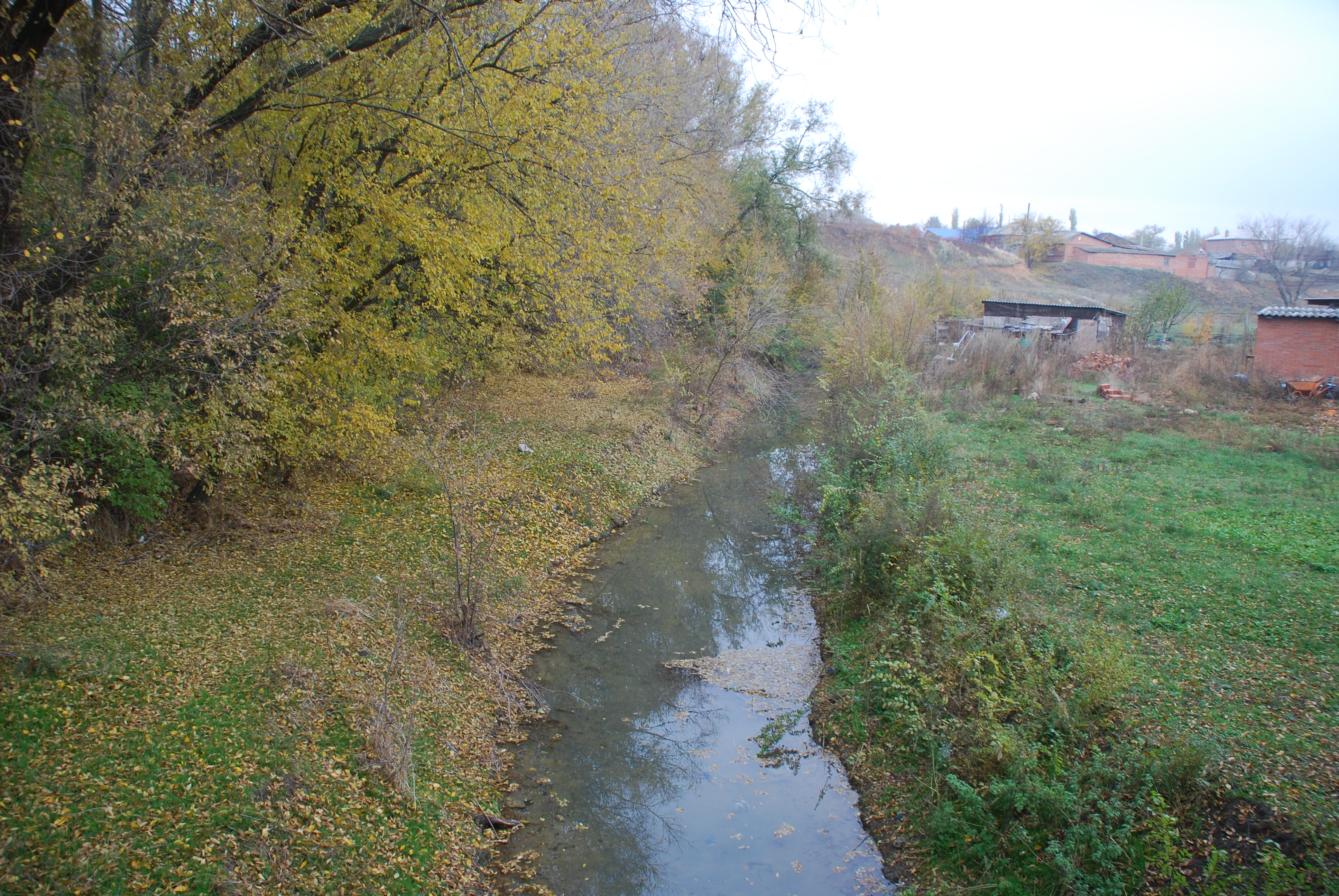 Havaly River in Krym.